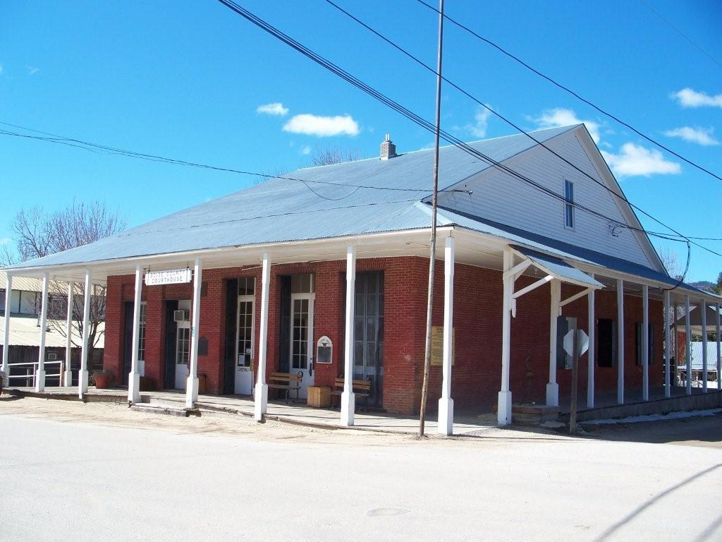 Idaho City is a city in and the county seat of Boise County, Idaho, United States, located about 36 miles (58 km) northeast of Boise. The population was 485 at the 2010 census, up from 458 in 2000. Idaho City is part of the Boise City−Nampa, Idaho Metropolitan Statistical Area. Idaho City was founded in December 1862 as “Bannock” (sometimes given as “West Bannock”), amidst the Boise Basin gold rush during the Civil War, the largest since the California gold rush a dozen years earlier. Near the confluence of Elk and Mores Creeks, its plentiful water supply allowed it to outgrow the other nearby camps in the basin, such as Placerville, Pioneerville, and Centerville. As its population swelled, the new Idaho Territorial legislature changed the town’s name to “Idaho City,” to avoid confusion with Bannack, in present-day Beaverhead County, the southwestern corner of Montana.